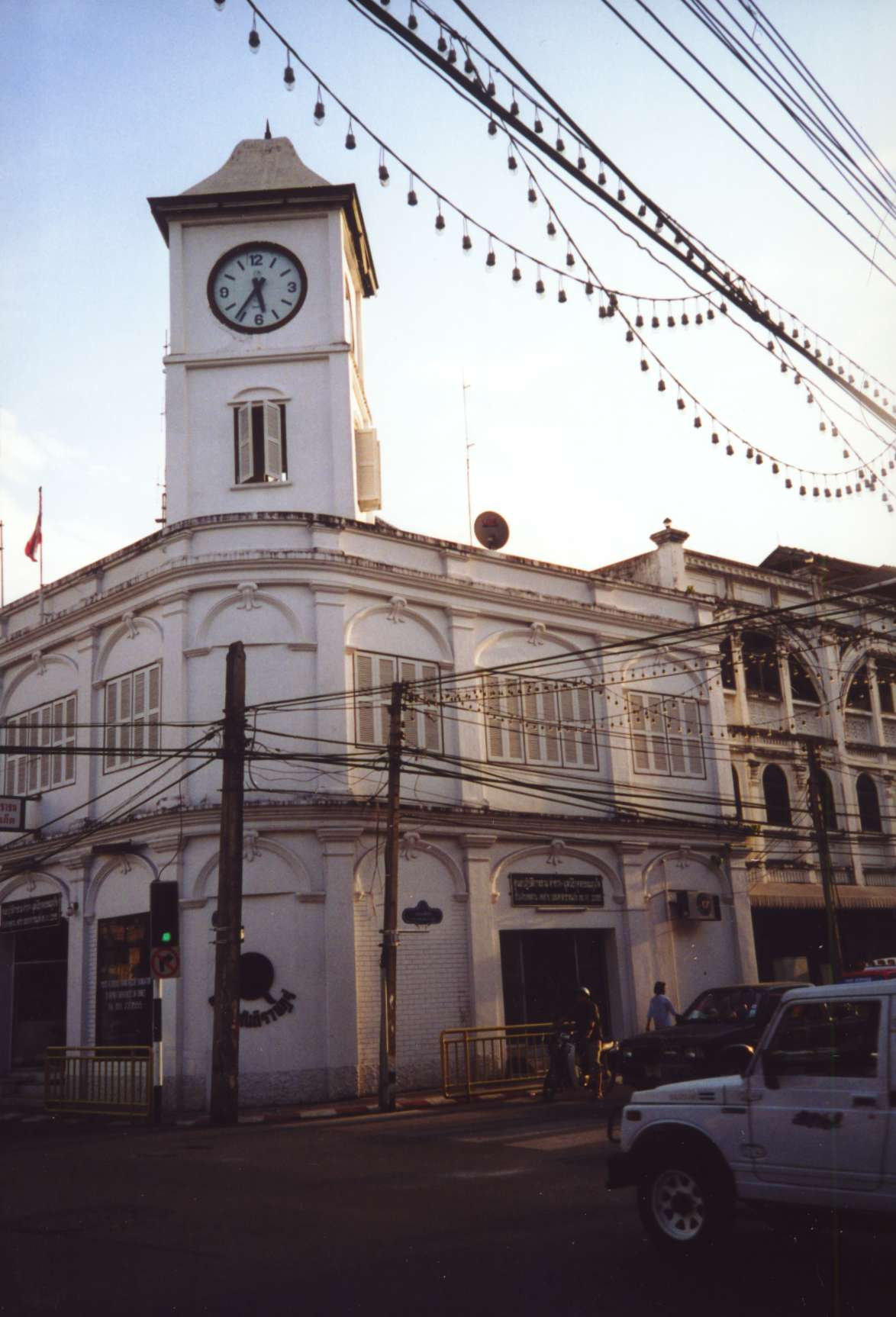 Sino-Portuguese Architecture influenced building in Phuket.